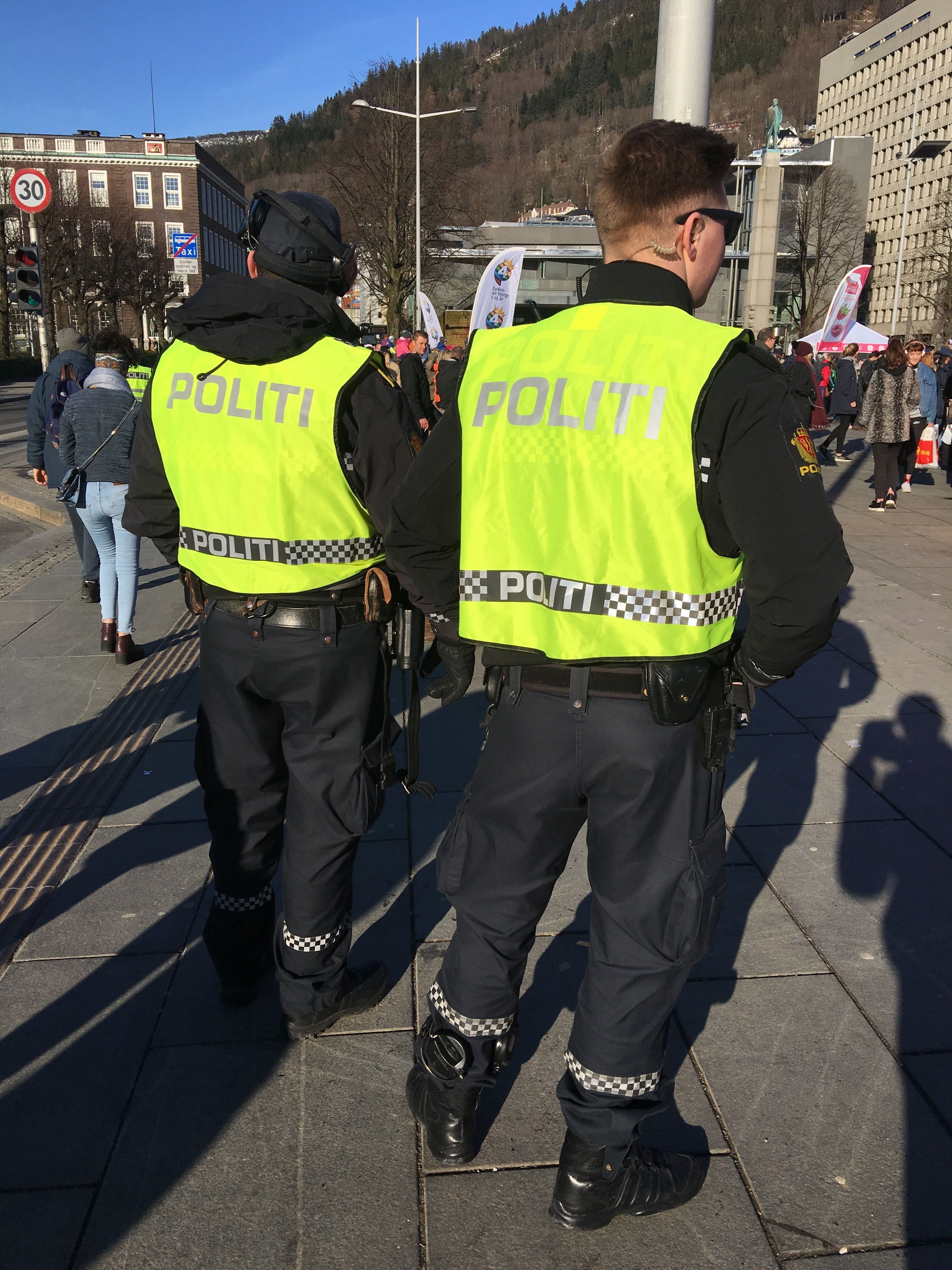 Norwegian police officers in uniforms with high-visibility vests in Christies gate in Bergen, Norway 2018-03-17 (Utrykningspolitiet holder vakt under folkearrangement)